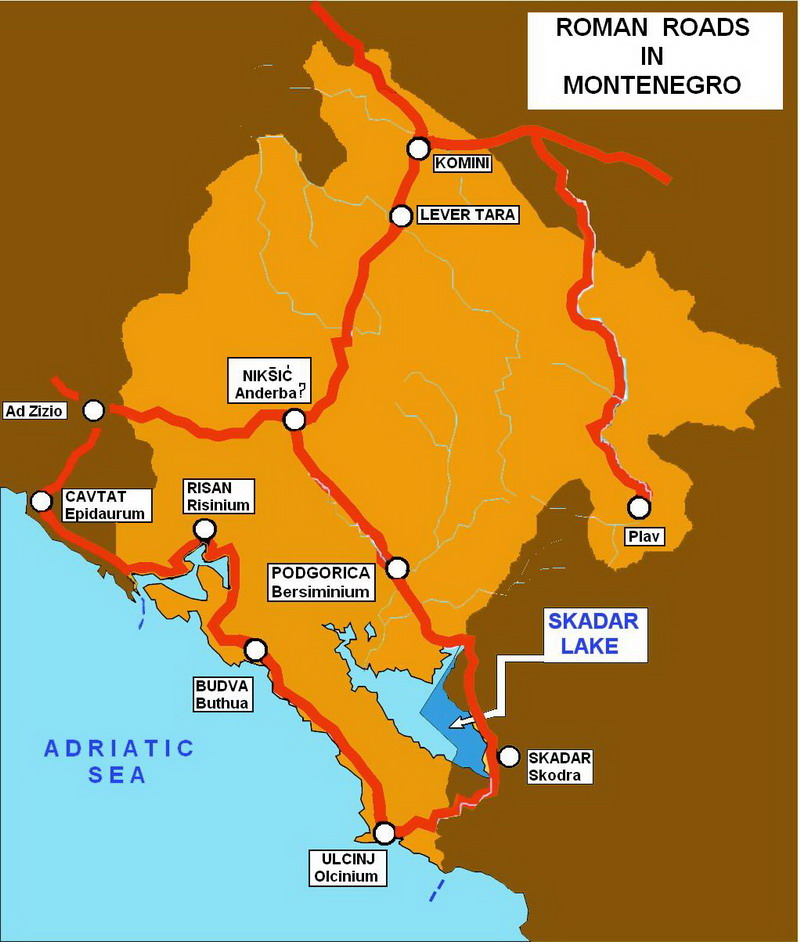 Roman Roads in Montenegro, from book History of Montenegro, Podgorica, 1967.